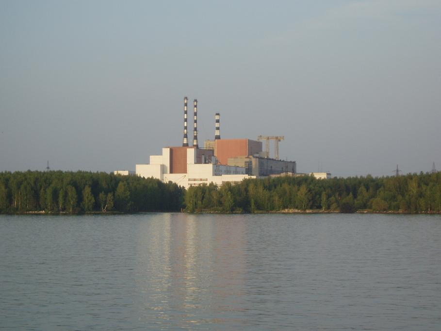 Main building of Beloyarsk Nuclear Power Station as seen from the Beloyarskoye Reservoir near Zarechny, Sverdlovsk Oblast, Russia. Beloyarsk has the largest fast breeder reactor (BN-600) of the world and is currently building another one (BN-800). As of 2007 it is the only commercial nuclear powerplant of the Urals and the oldest Russian commercial nuclear powerplant still in use. Besides the BN-600 it also has 2 older graphite reactors, which were shutdown in the 1980s and 1990s.